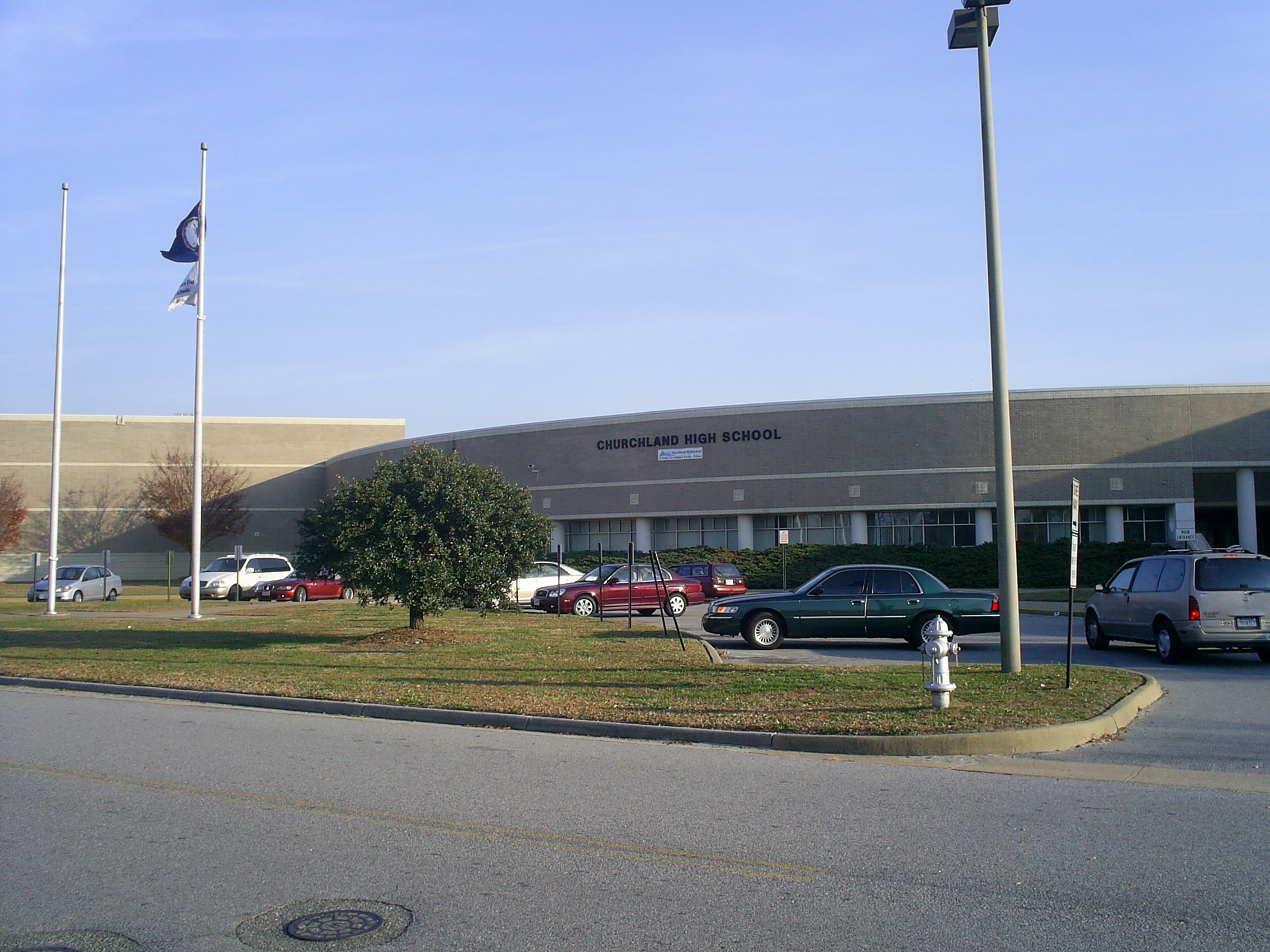 Picture of Churchland High School in Portsmouth, Virginia